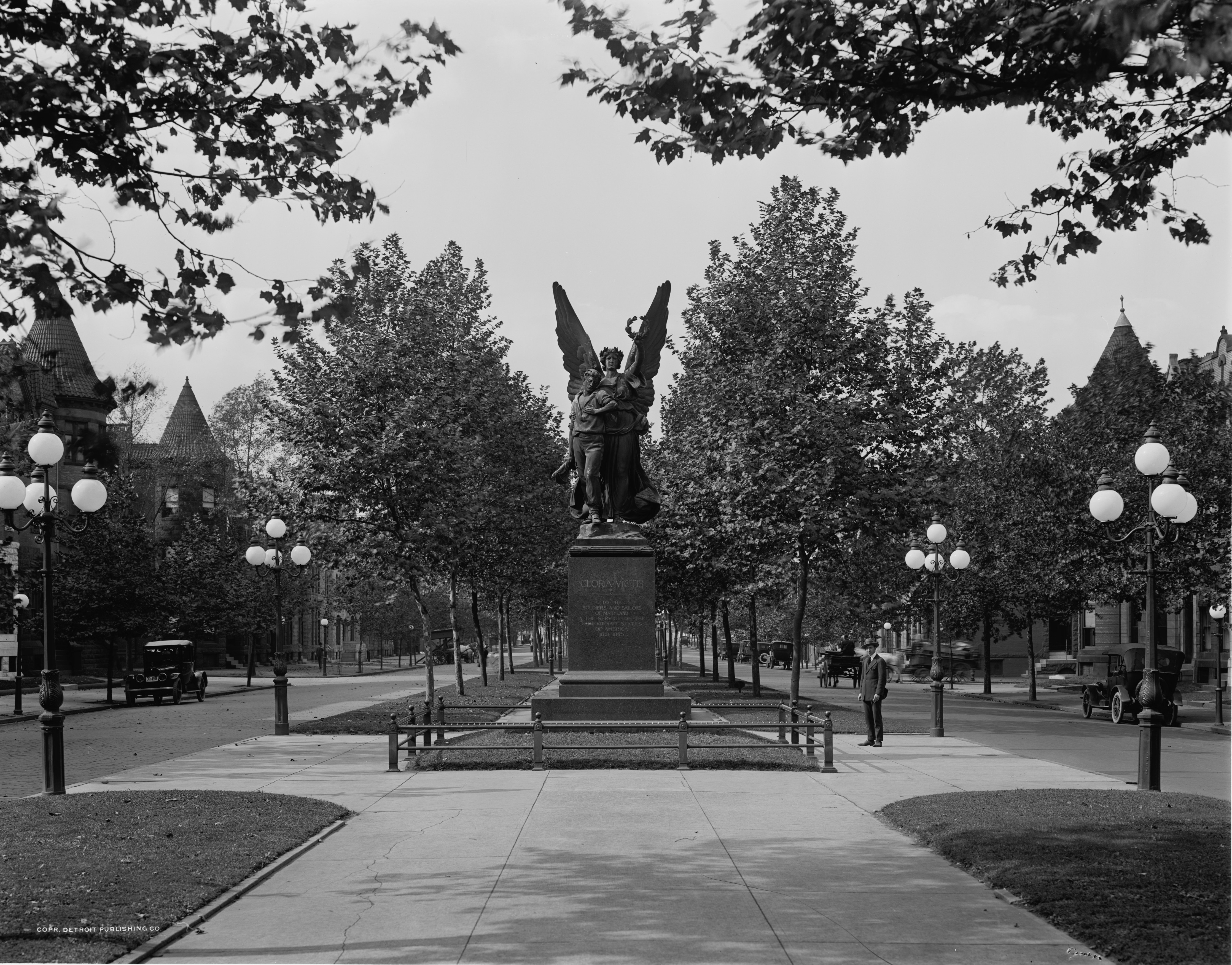 Sculpted by F. Wellington Ruckstuhl in 1902. Funded by the Maryland Chapter of the Daughters of the Confederacy.